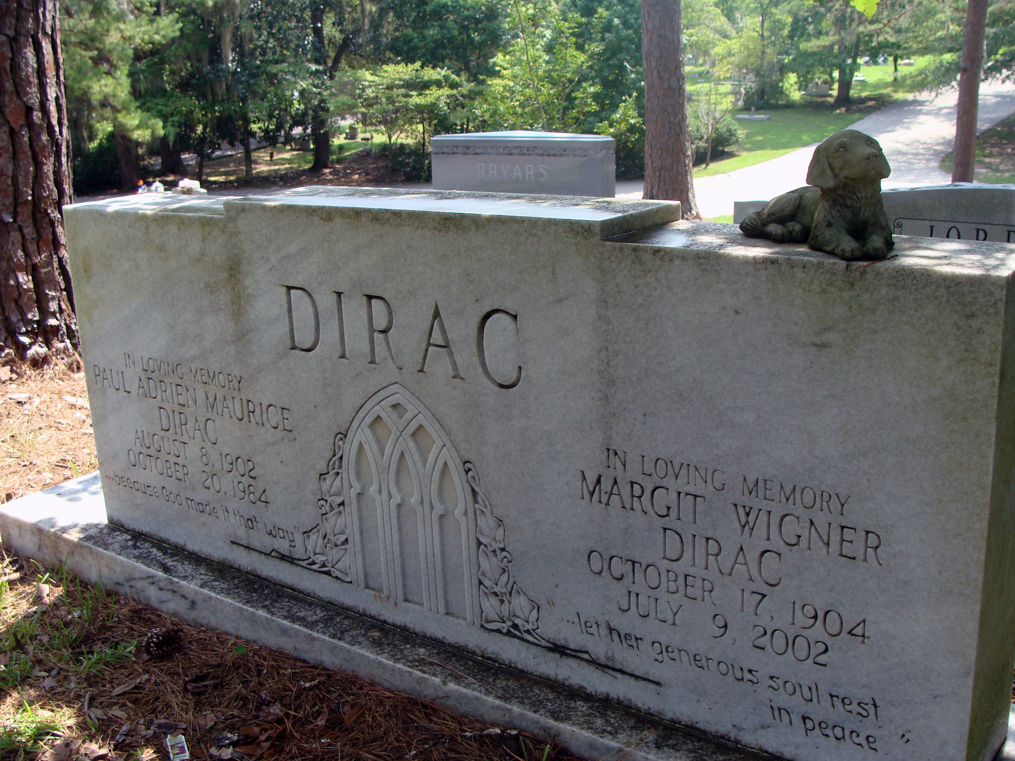 Gravestone of P.A.M. Dirac and wife Margit (Manci) Wigner, at Roselawn Cemetery, Tallahassee, FL. There is also a marker (sign) for their daughter Mary Elizabeth, next to her mother (not seen in picture), which Im guessing is where her ashes were scattered?